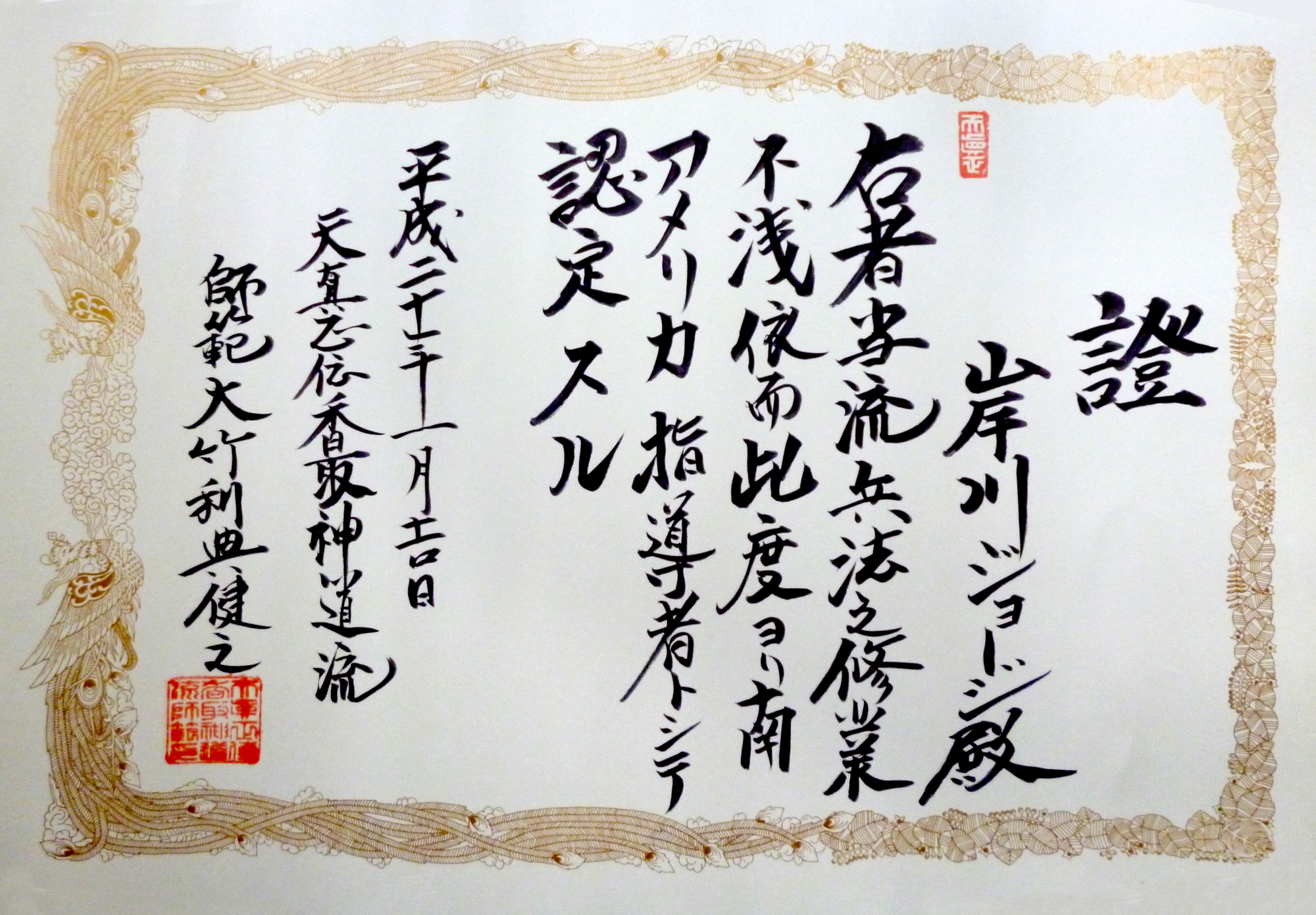 Teaching authorization of Tenshinshōden Katori shintō-ryū of Jorge Kishikawa, signed by Ōtake Risuke, TSKSR Shihan. It reads: Certification KISHIKAWA, Jorge Has trained with diligence and assimilated the teachings of our school, therefore I name him instructor (shidosha) responsible by South America. January, year 21 of the Heisei era Tenshin shōden Katori shintō-ryū Shihan Ōtake Risuke